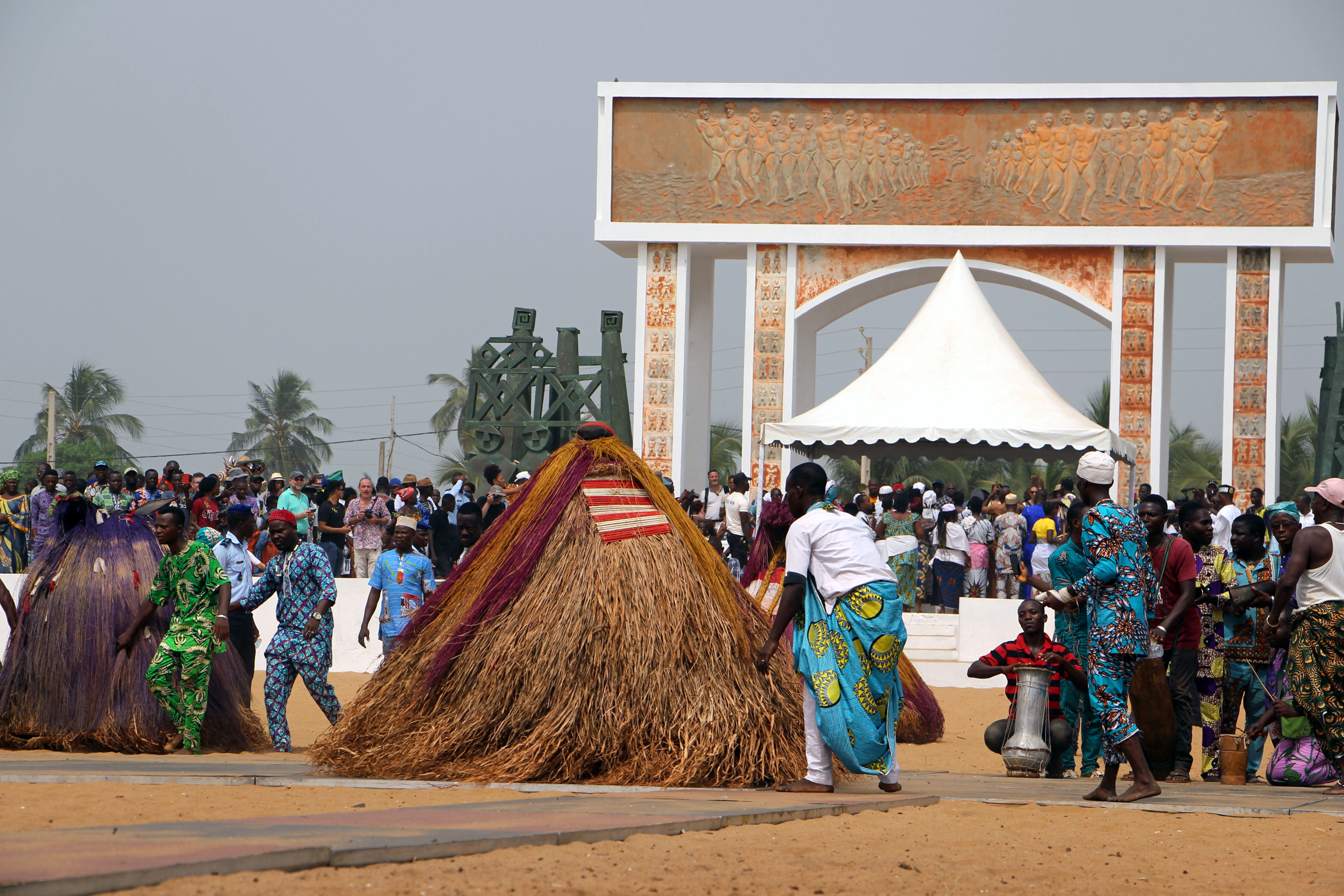 the party took place with the Zangbéto This is an image with the theme "Africa on the Move or Transport" from: Benin